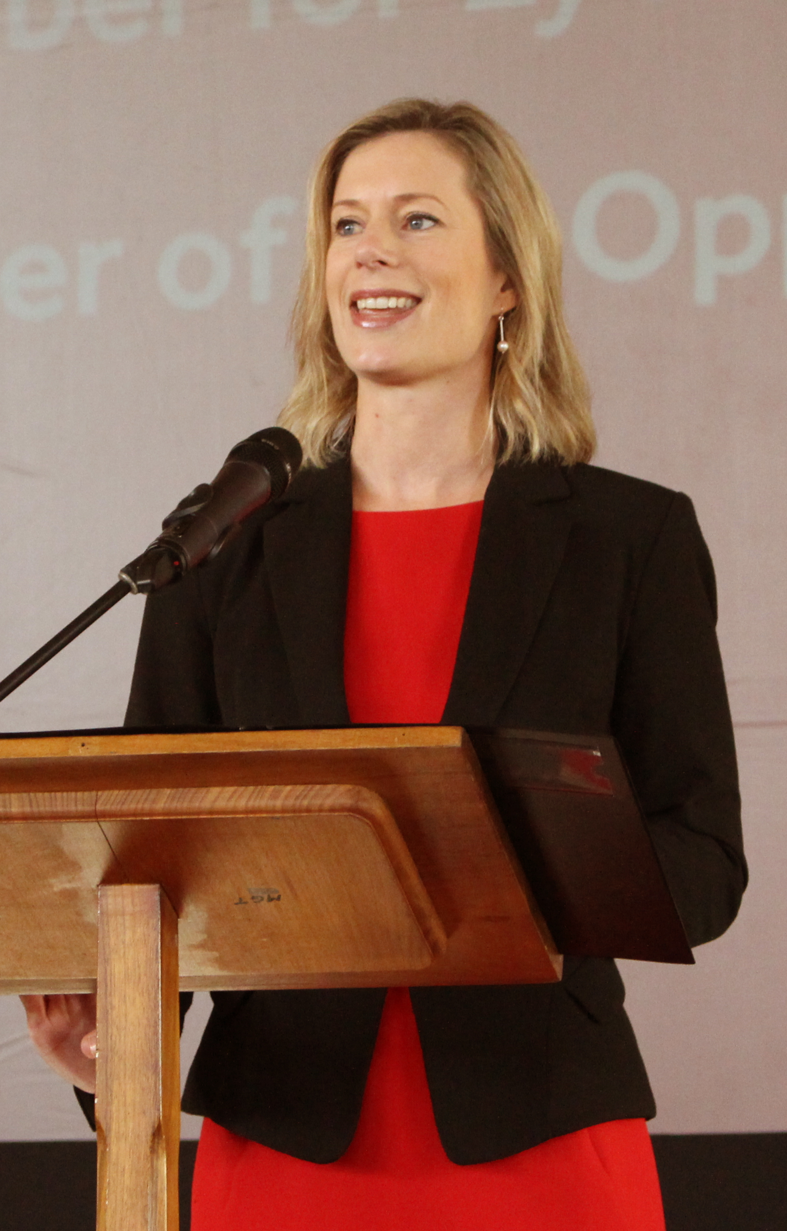 Rebecca White MP addresses the party's 2017 annual conference in George Town, Tasmania